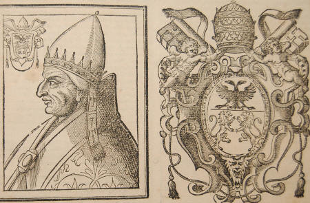 Face and coats of arms - pope Gregory VI